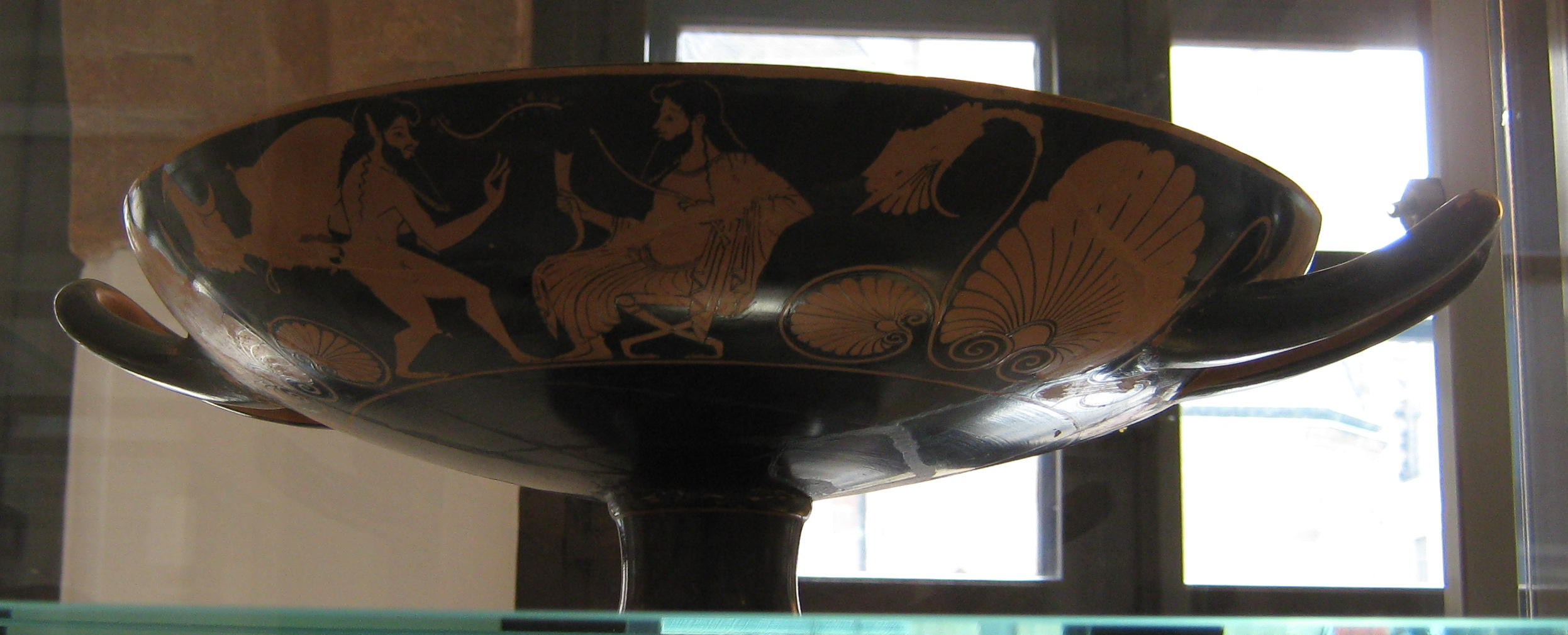 Uploaded Raw material, everybody can work on Names, Categories, Descriptions and so on.. - pictures of descriptions should be deleted after usage.